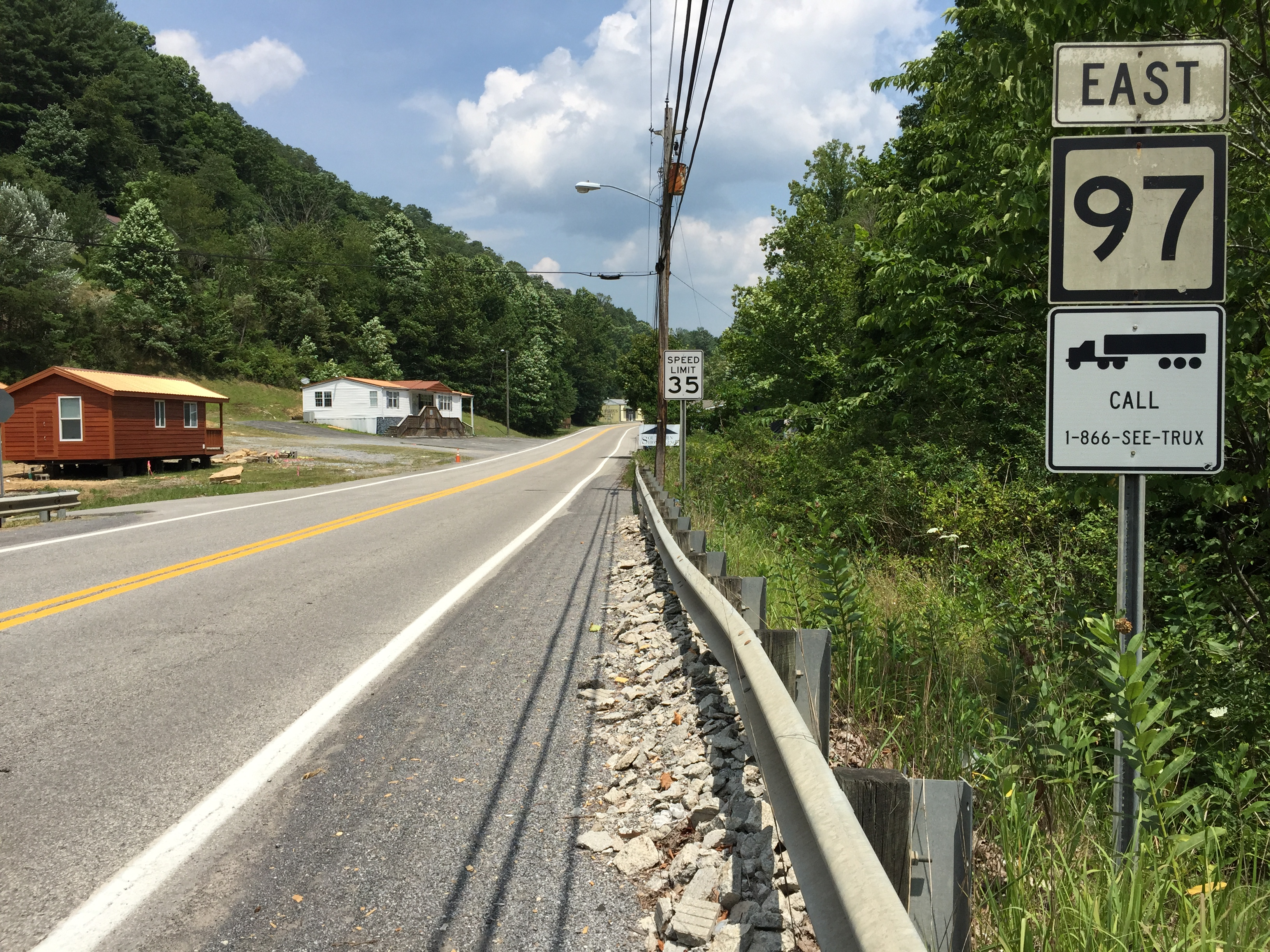 View east along West Virginia State Route 97 (Twin Falls Road) at West Virginia State Route 10 (Main Avenue) in Pineville, Wyoming County, West Virginia